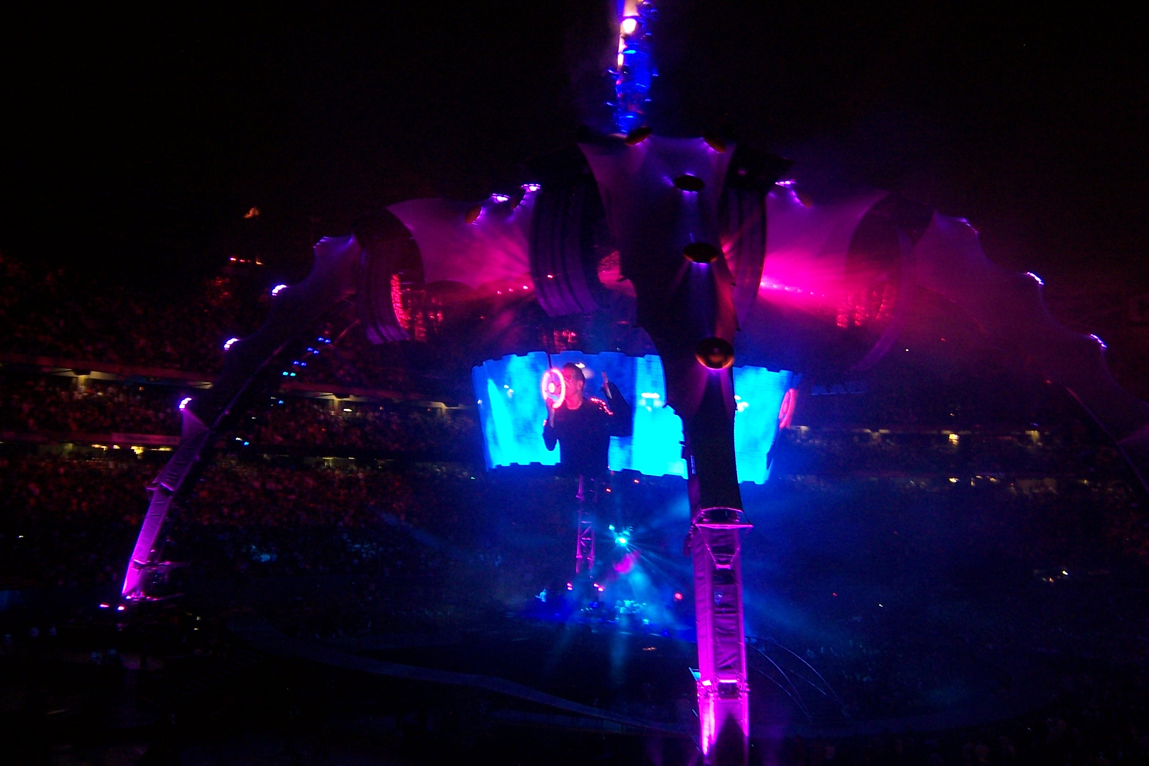 U2 performing "Ultraviolet (Light My Way)" at Giants Stadium in New Jersey during the group's U2 360° Tour